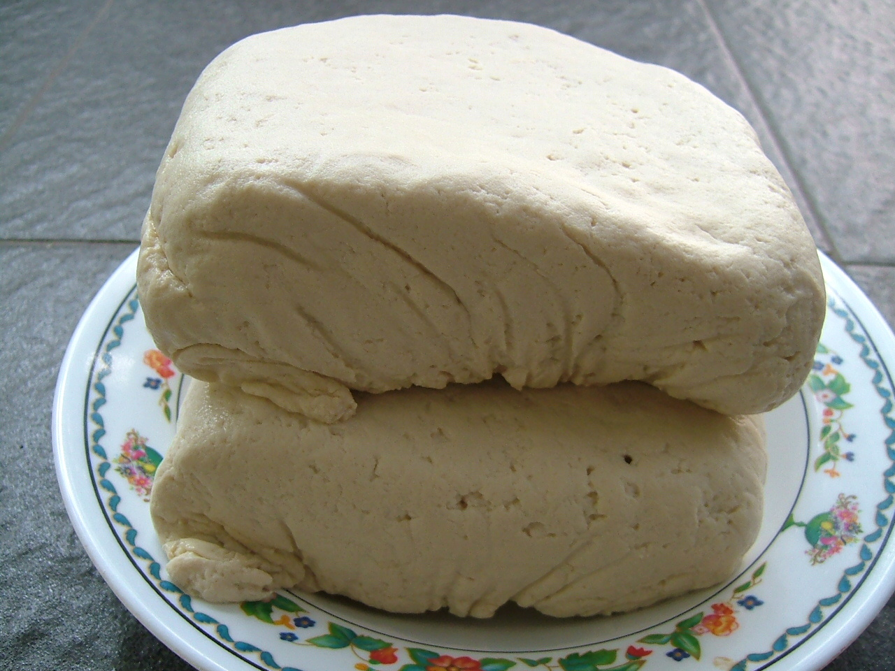 Tofu, Jakarta, Indonesia